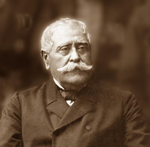 Ivane Bagration of Mukhrani "Ivane MUKHRANBATONI"